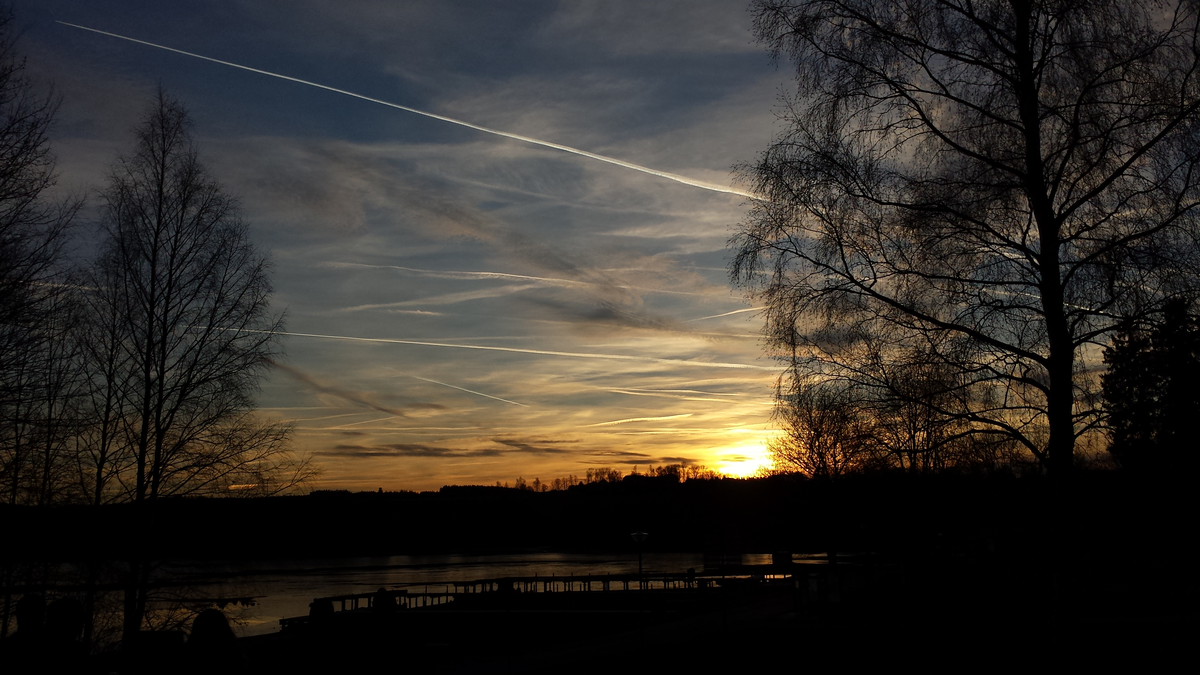 View of the sunset during the winter season.